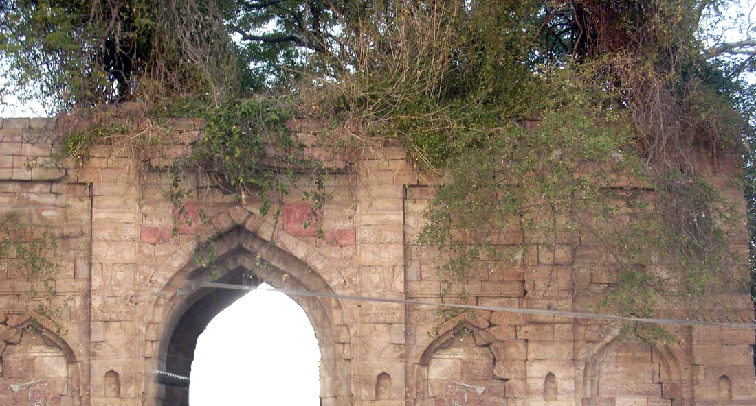 sirpur fort is built during the the Gond Kings era,he's name's King Ballala